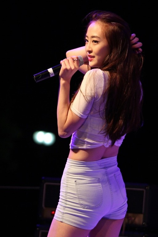 Dasom at Hanyang University Festival on September 24, 2014.